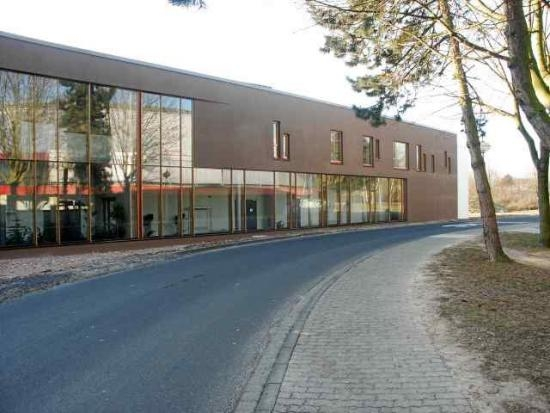 Northern side of the music school in Baunatal, Germany